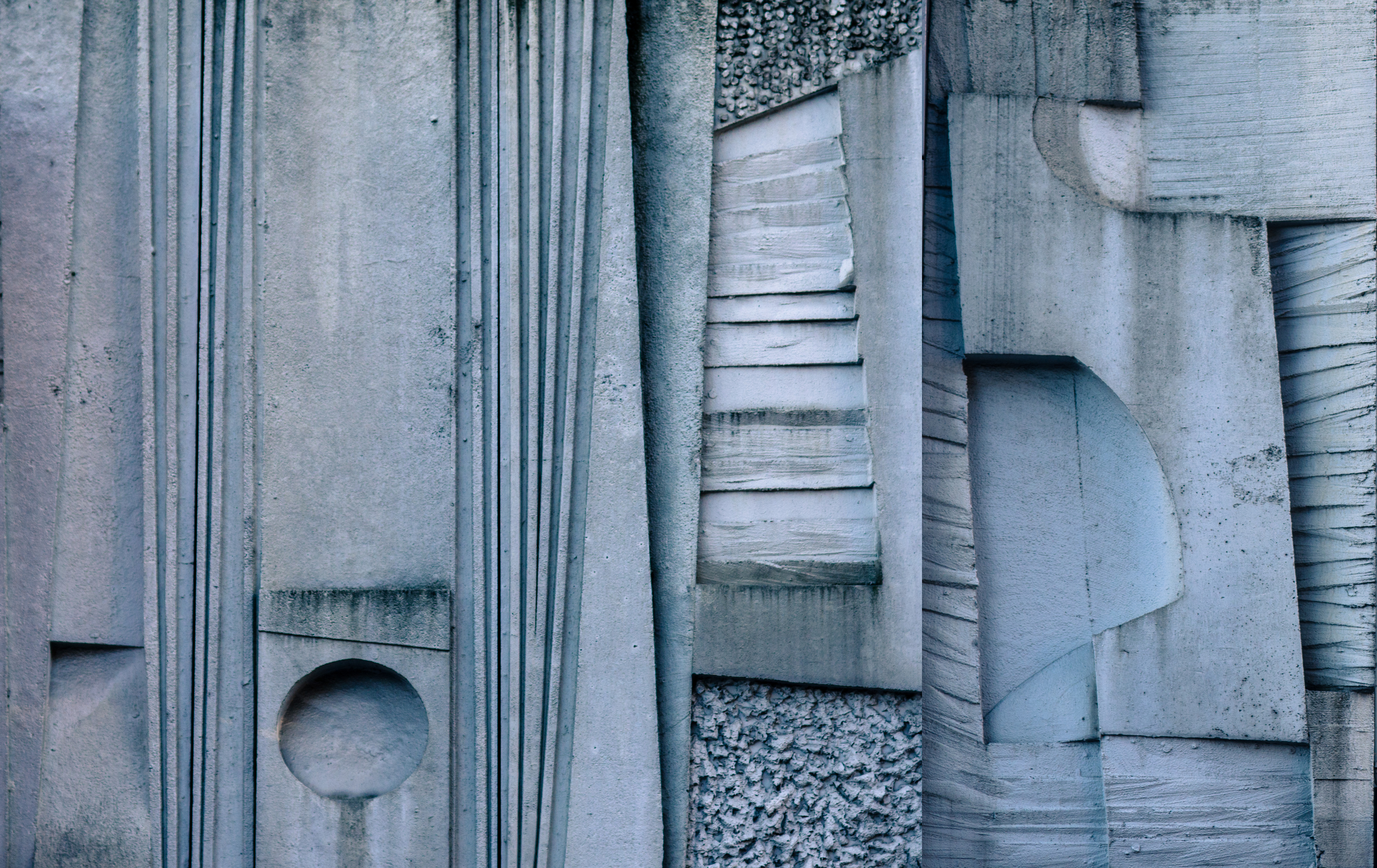 A collage of some of the reliefs on Quayside Tower, Birmingham, UK by William Mitchell (sculptor), created in 1965.